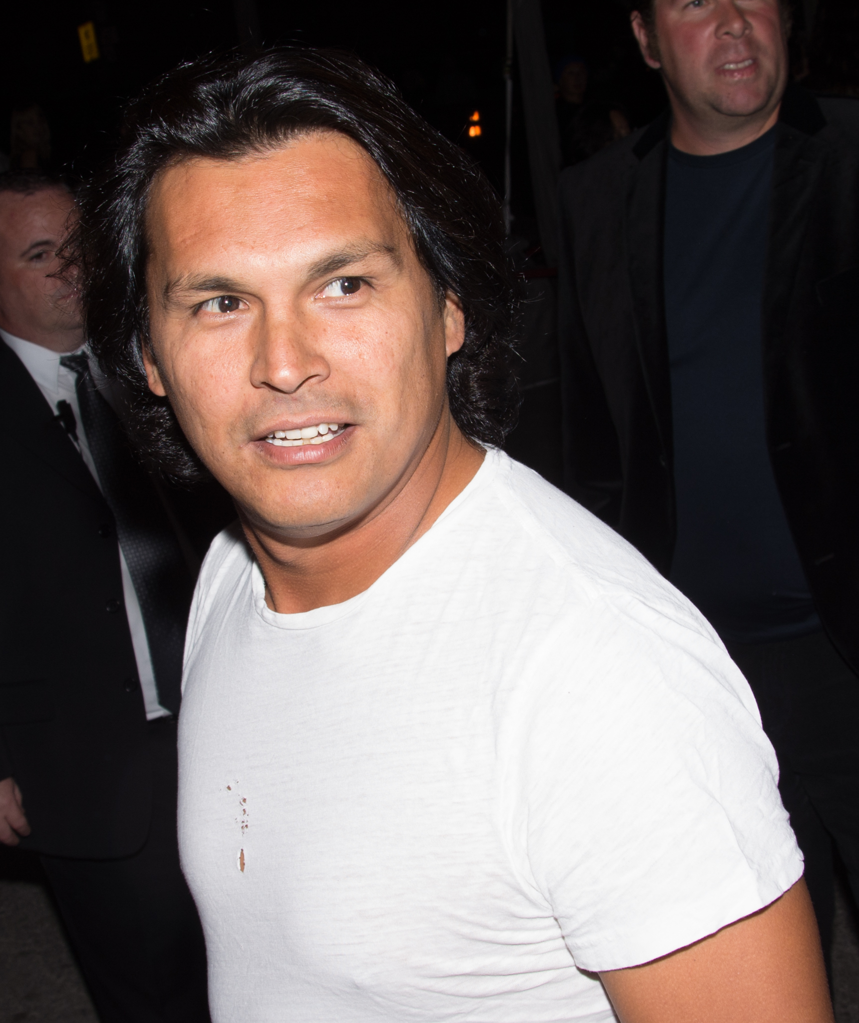 Actor Adam Beach arriving for the Hollywood Foreign Press Association & InStyle's 2014 TIFF Celebration